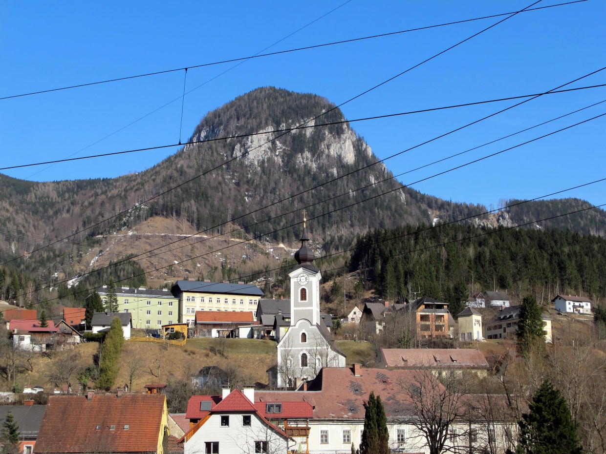 Village Hieflau